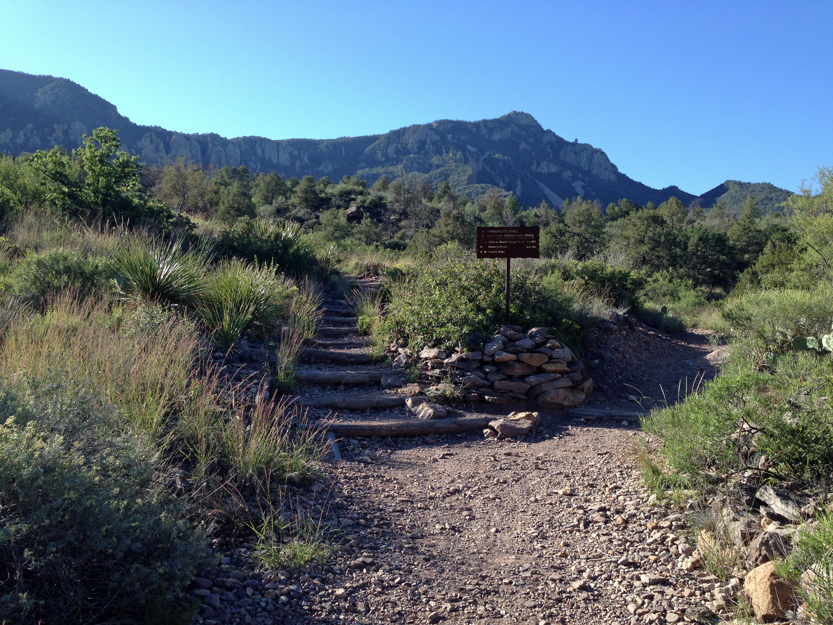 The intersection of the Laguna Meadows and Pinnacles trails below Emory Peak in Big Bend National Park, Texas.